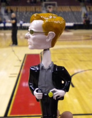 B-HED at the Toronto Raptor's game, Jan 27th 2010